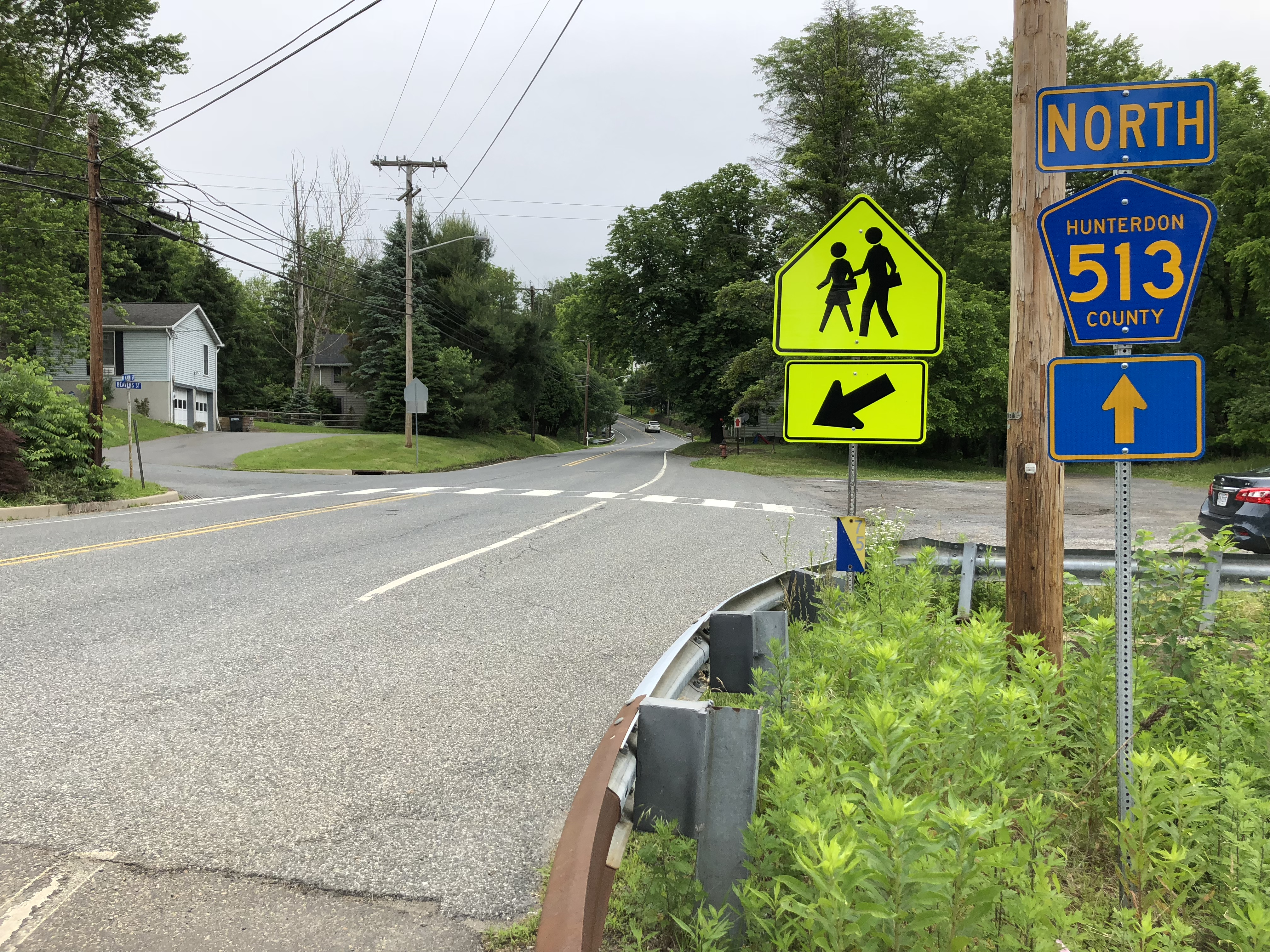 View north along Hunterdon County Route 513 (West Main Street) at Arch Street in High Bridge, Hunterdon County, New Jersey